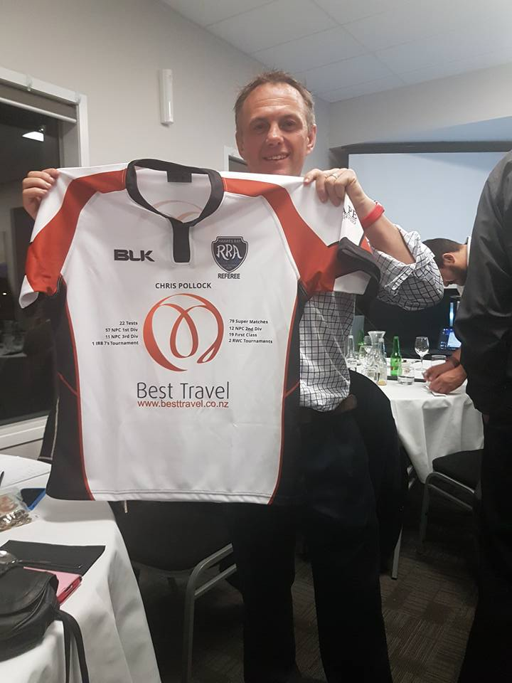 Chris Pollock receives a commemorative jersey from the HBRRA